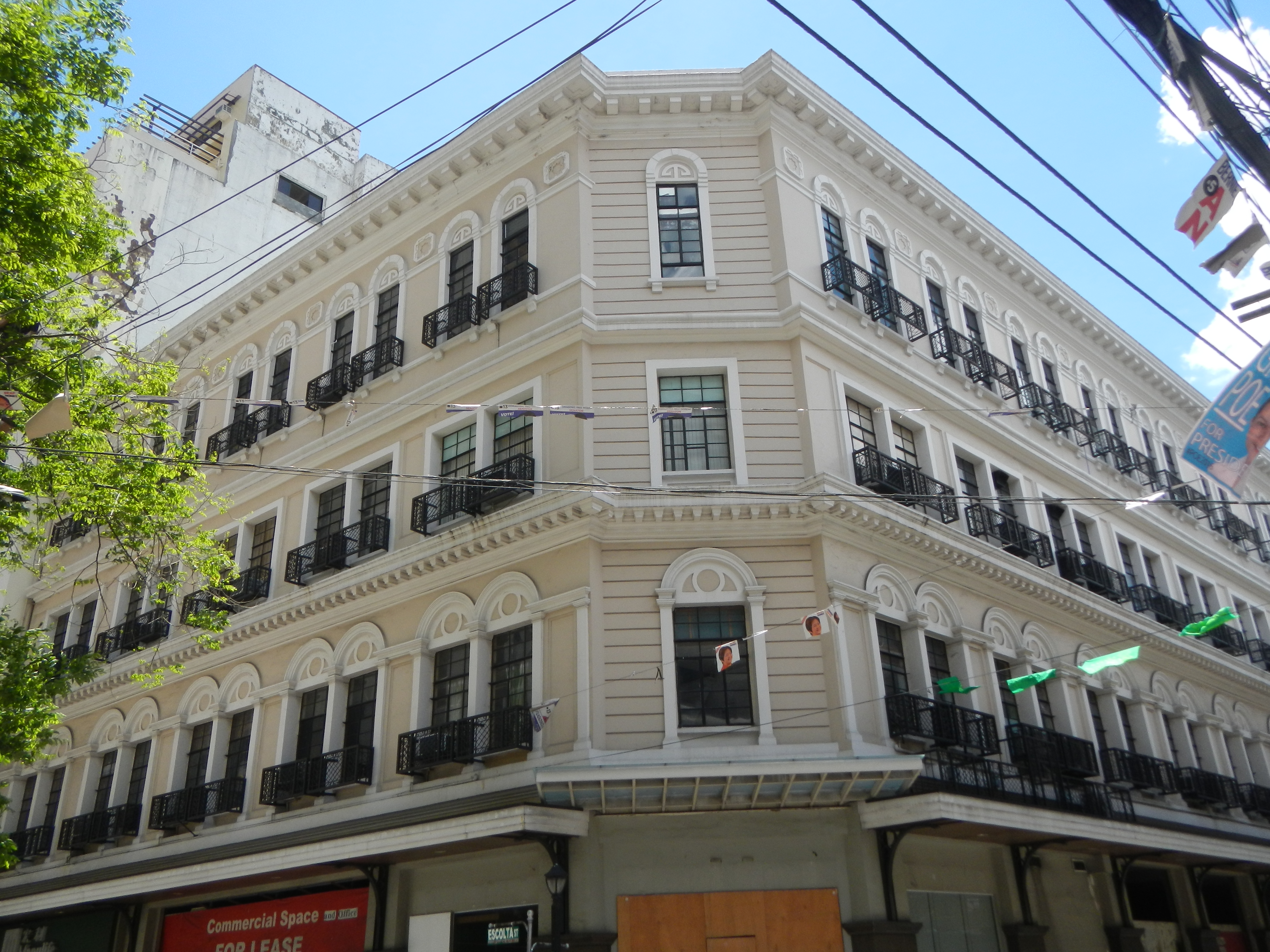 Escolta Street City of Manila, Santa Cruz, Manila and Binondo, List of Cultural Properties of the Philippines in Metro Manila, List of Cultural Properties of Santa Cruz Buildings in Santa Cruz, Manila Regina Building, Tambunting Pawnshop, First United Building (Perez-Samanillo Building), William J. Burke Burke Building (Manila), Natividad Building Escolta corner Tomas Pinpin Streets.